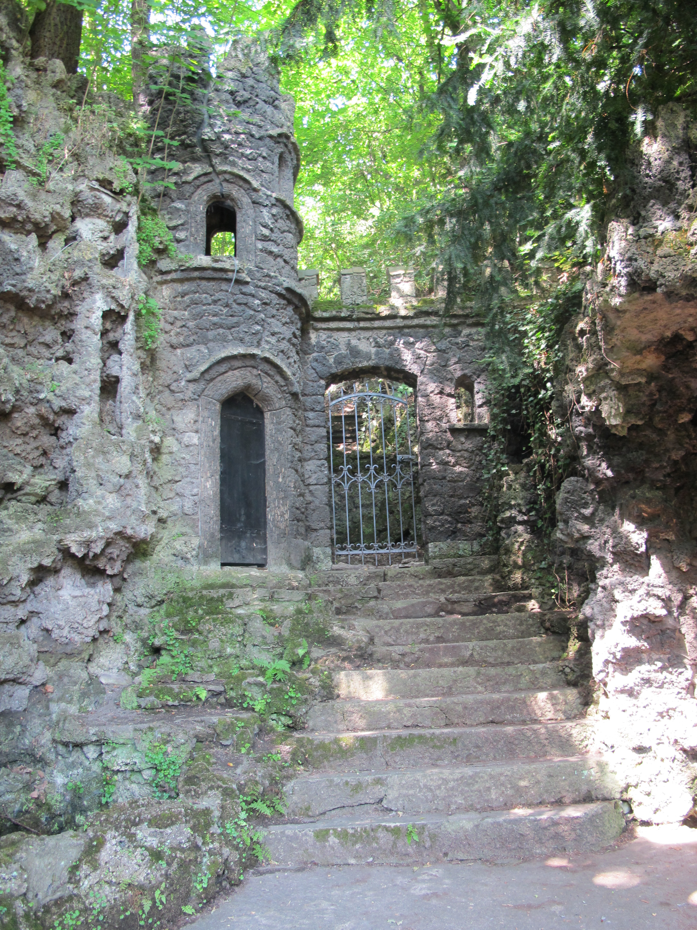 Trpasličí hrádek (Gnome Castle) - artificial ruins of castle in Ústí nad Labem Zoo.